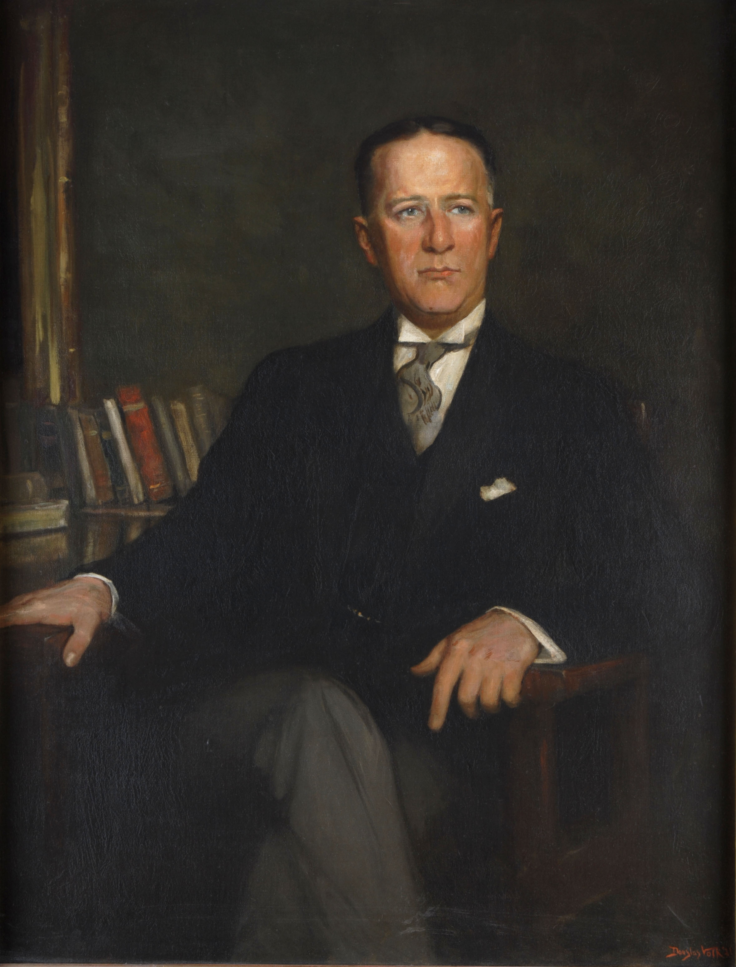 Official Gubernatorial portrait of Alfred E. "Al" Smith.